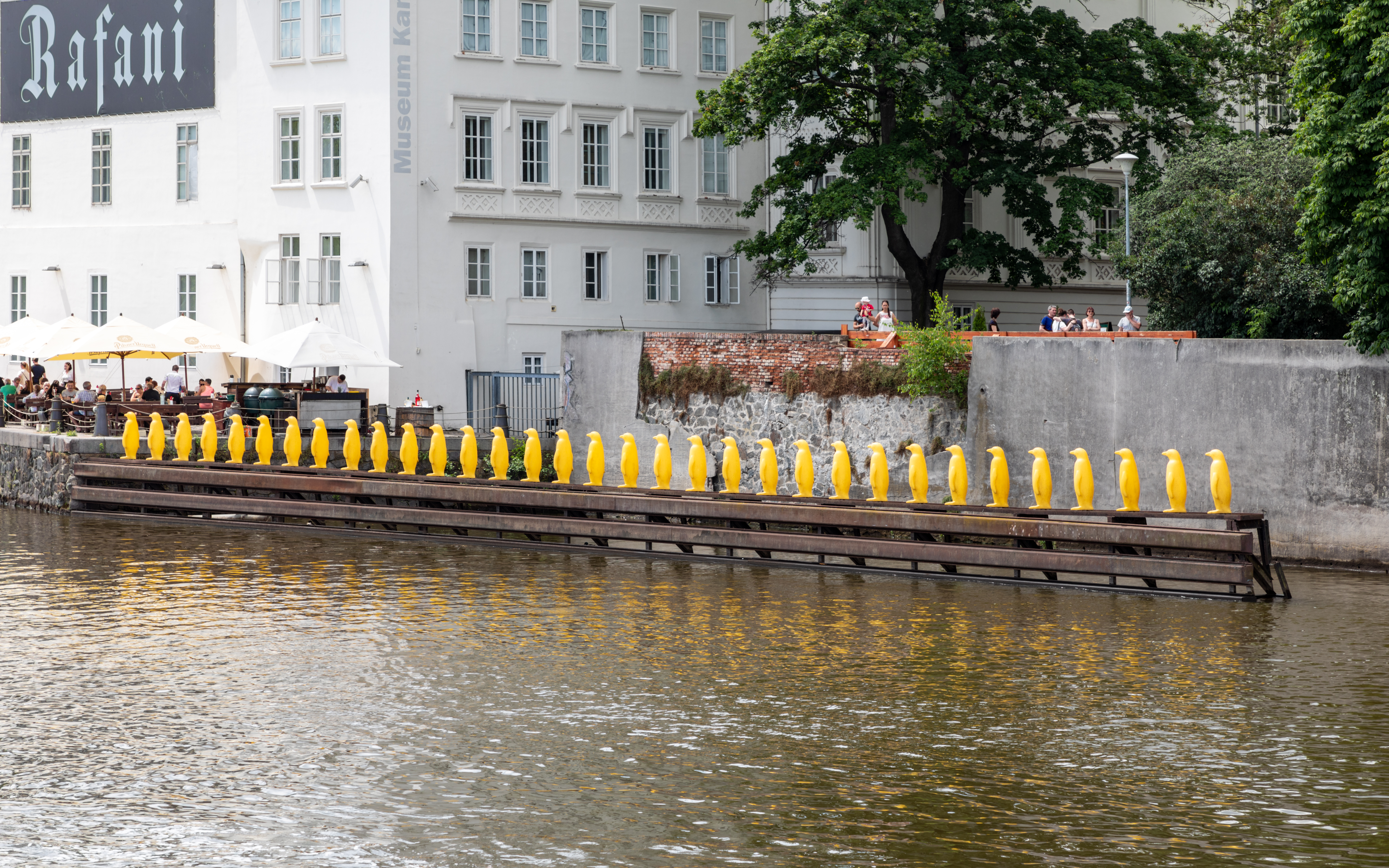 Kampa Museum (and Sculpture “Yellow Penguins” (Cracking Art Group, 2008)), Prague, Czech Republic Sculpture TitleGelbe PinguineArtistCracking Art GroupDate2008